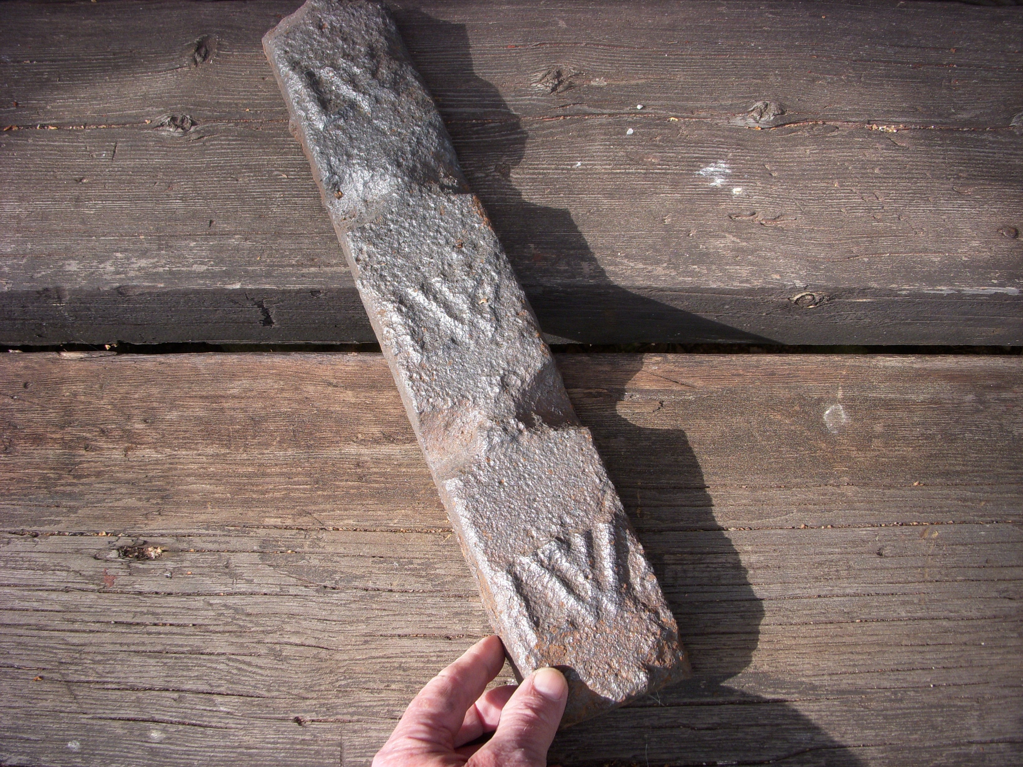 19th century pig iron bar from Dalarna, Sweden